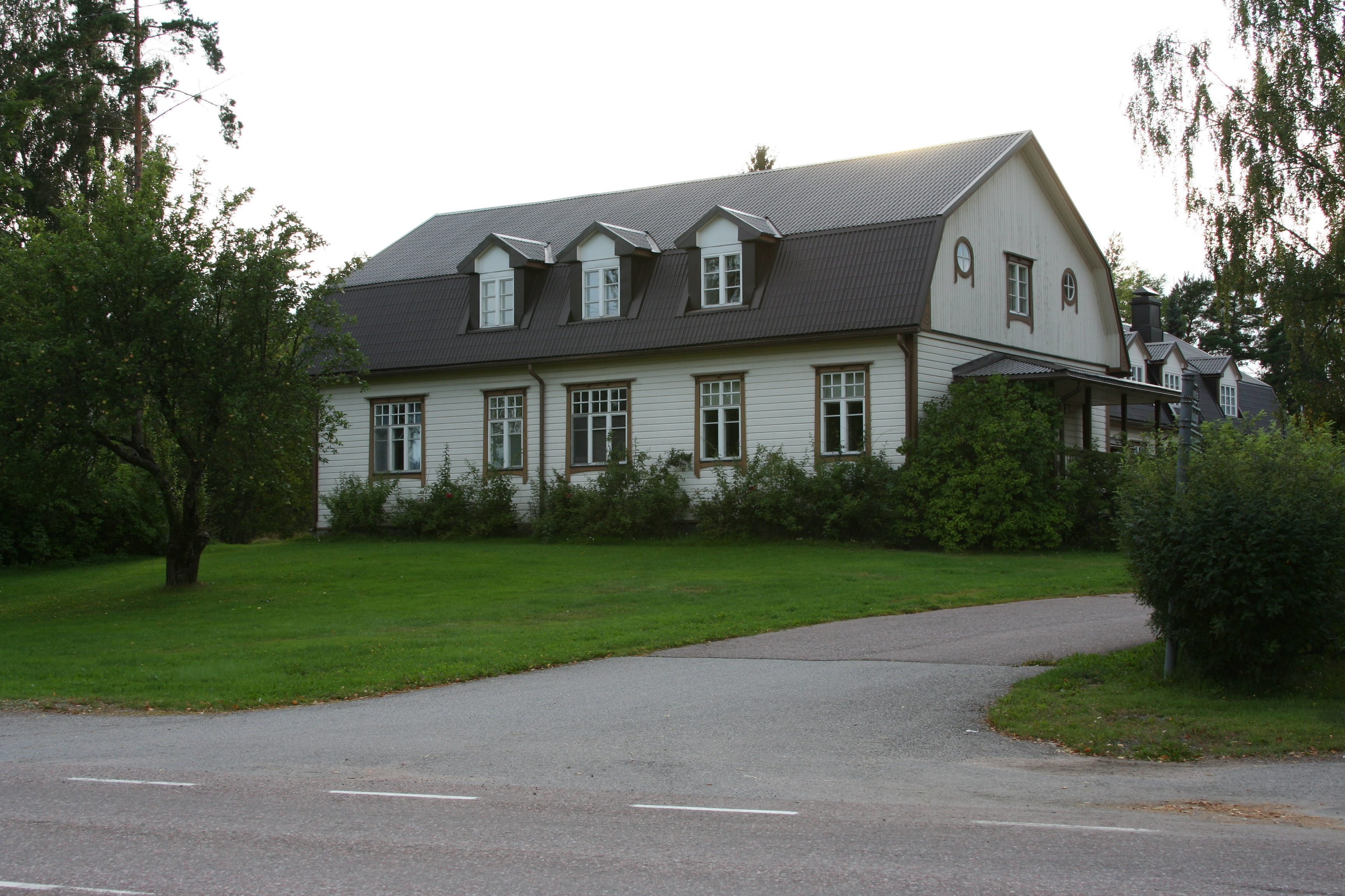 Pöytyä Community health center, Riihikoski, Pöytyä, Finland. It was formerly a local hospital.